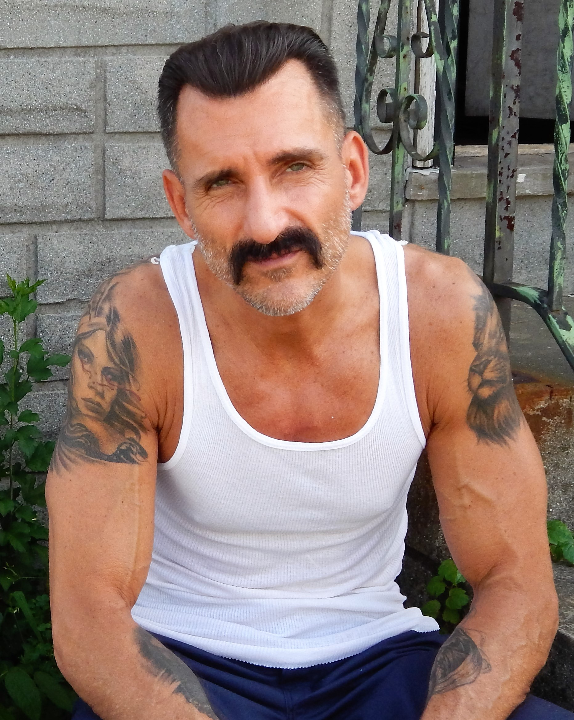 Wass Stevens - Photos of actors & film crew working on the movie "Sollers Point" - parts of which were filmed in Dundalk, Md.. The photographs feature people in the crew working together, plus their movie making gear. I've worked in a various places and jobs, where I learned the dynamics of working well, hard & safely with a crew. I also learned to make best use of tools/equipment/supplies by appreciating/respecting/maintaining/and (sometimes) even loving that gear what gets the job done and helps people earn good money. You can read about the movie here: To the crew: Consider this album a historical document, and you may be viewing and showing these photographs years, decades from now. What you ain't so happy with today - no one always smiles nice for the camera when they are working so hard - may be something good to have in the future. And your family & friends, today, might be pleased to see you working in your profession. Shots on here are something that would make me proud if any of the people were my relatives or friends. If any shots are good for publication anywhere - with me being credited - email ( ursusdave at yahoo dot com ) the photo number to me, which is in each photo's title. As soon as we can, I will try to get together with Matt or anyone from the crew who can help me add your names to photos you are in. Anyone who does not want to be identified - for a reasonable reason - let us know. If you really, really want something for only you or your family & friends, email the photo number to me. If any of you absolutely do not want a photo seen, for a good reason, send me an email with the photo number. I have edited out many shots already, some just because one person's face is frozen in an unkind shape and any of that stuff that makes people hate photos of themselves. You'z (my Baltimore accent) can find out a lot about me, via one of my many, interlinked, Internet publishings at: .